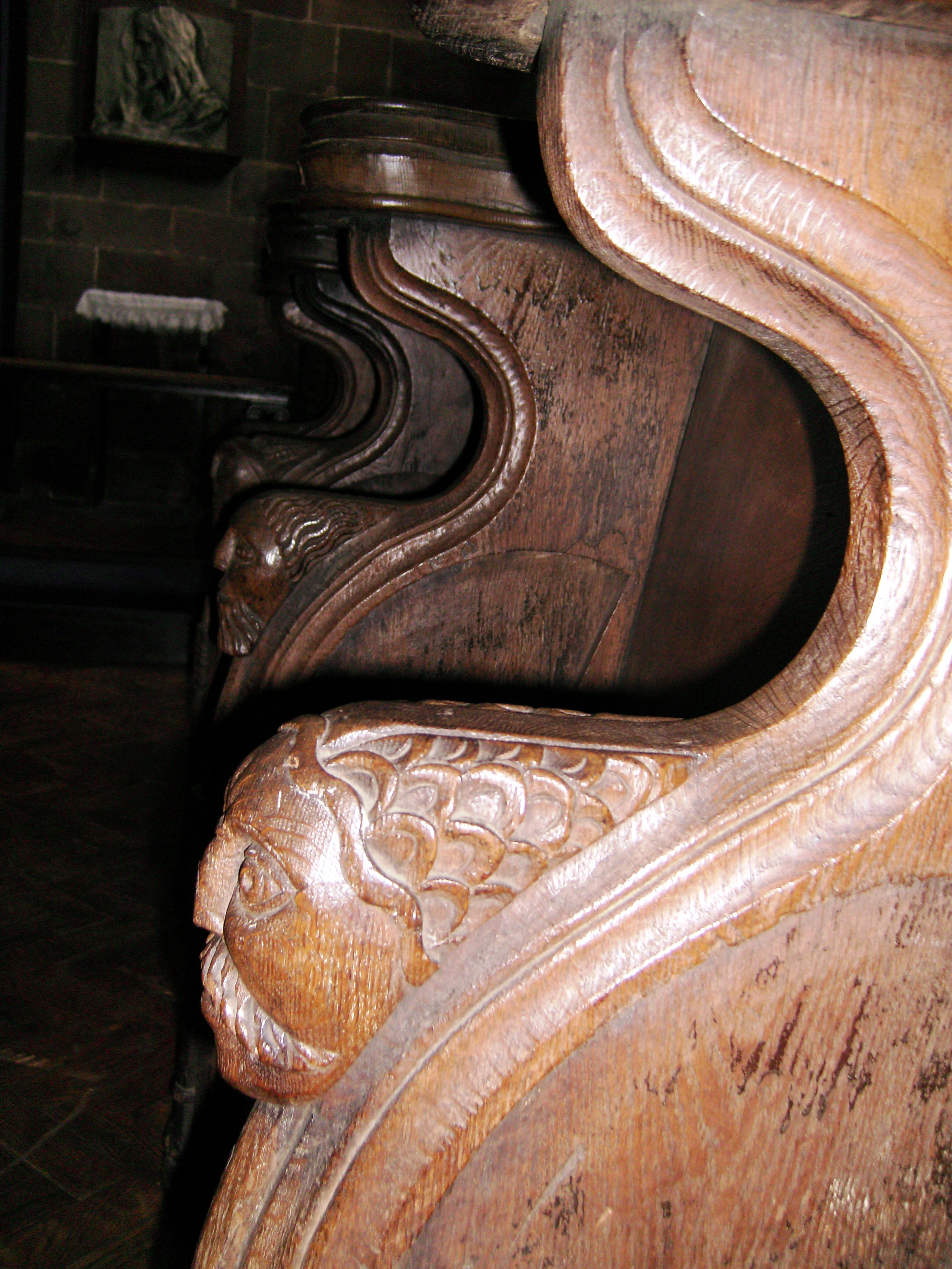 Choir stalls thought to come from Lilleshall Abbey, Shropshire, dissolved in 1538 and sold to James Leveson of Wolverhampton, lessee of St Peter's deanery lands.